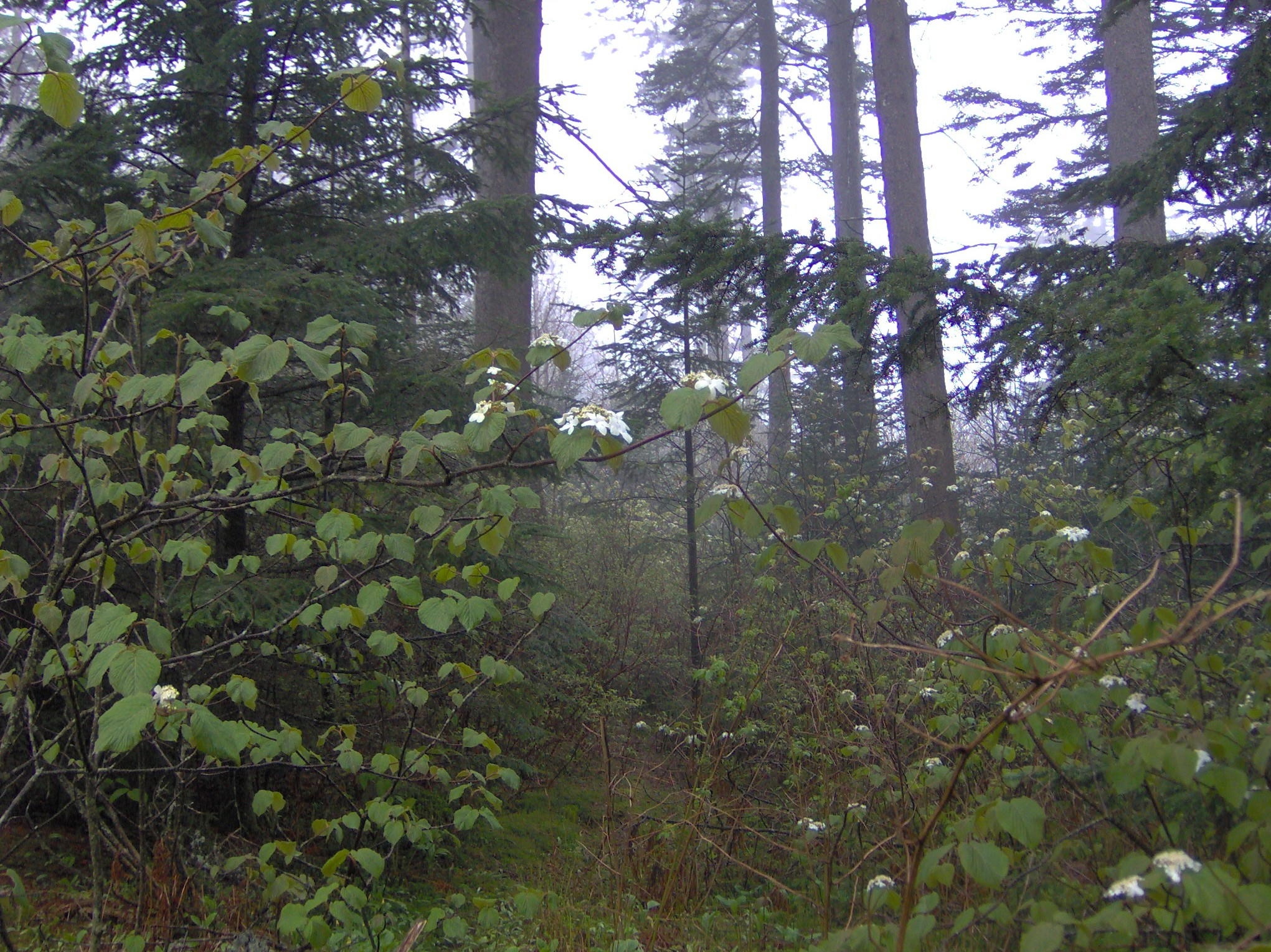 The "entrance" to the old Hyatt Ridge Trail manway in the gap between Mount Yonaguska and Mount Hardison along the Balsam Mountain Trail in the Great Smoky Mountains of North Carolina. The old Hyatt Ridge Trail, no longer maintained and badly overgrown, descends Dashoga Ridge past Mt. Hardison and Marks Knob to the Raven Fork Valley. The trail is still popular with bushwhackers trying to reach Three Forks and peakbaggers trying to reach the summit of Marks Knob. The flowers in the foreground are Viburnum lantanoides, commonly called "witch hobble," or "hobblebush." Elevation appx. 5,900ft (1800m).